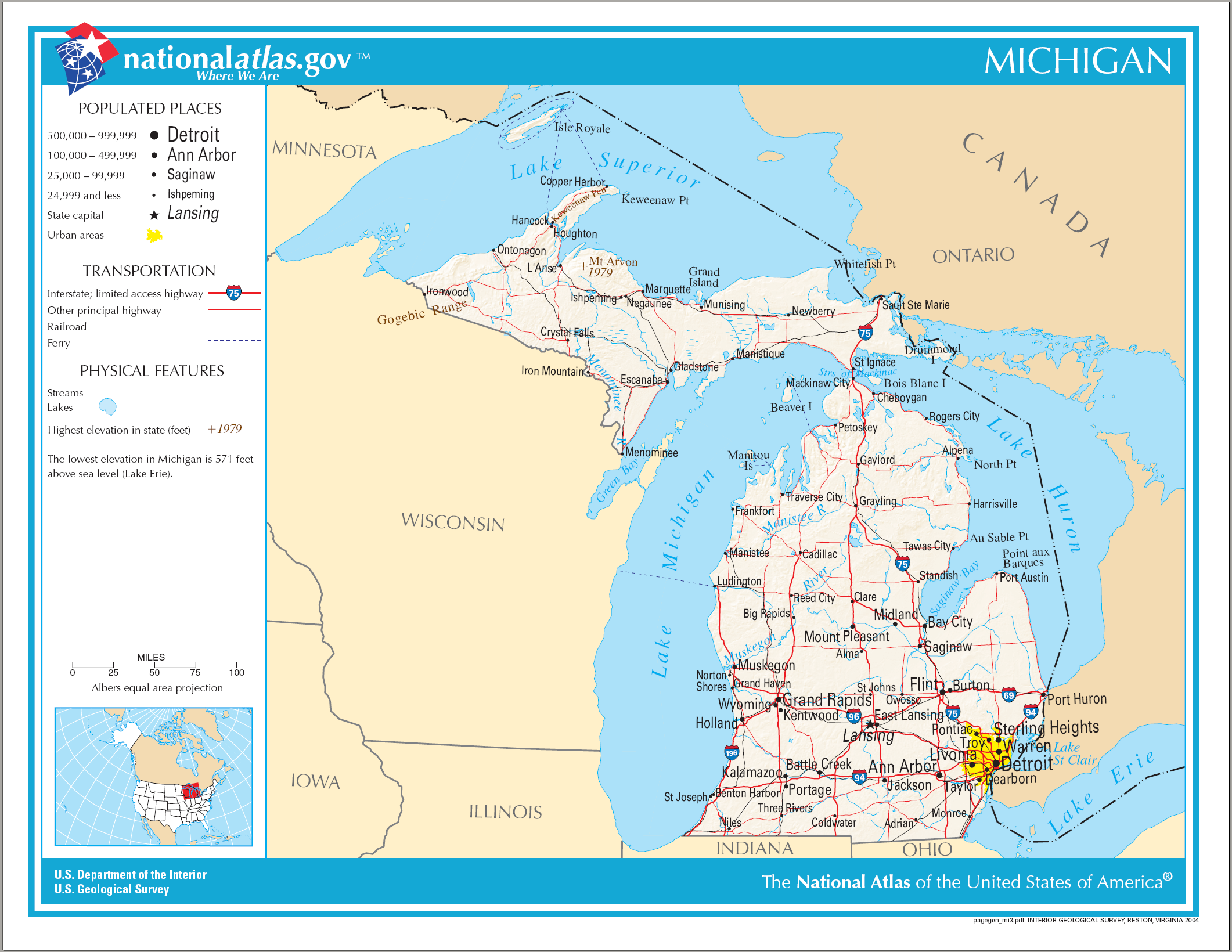 Map of Michigan